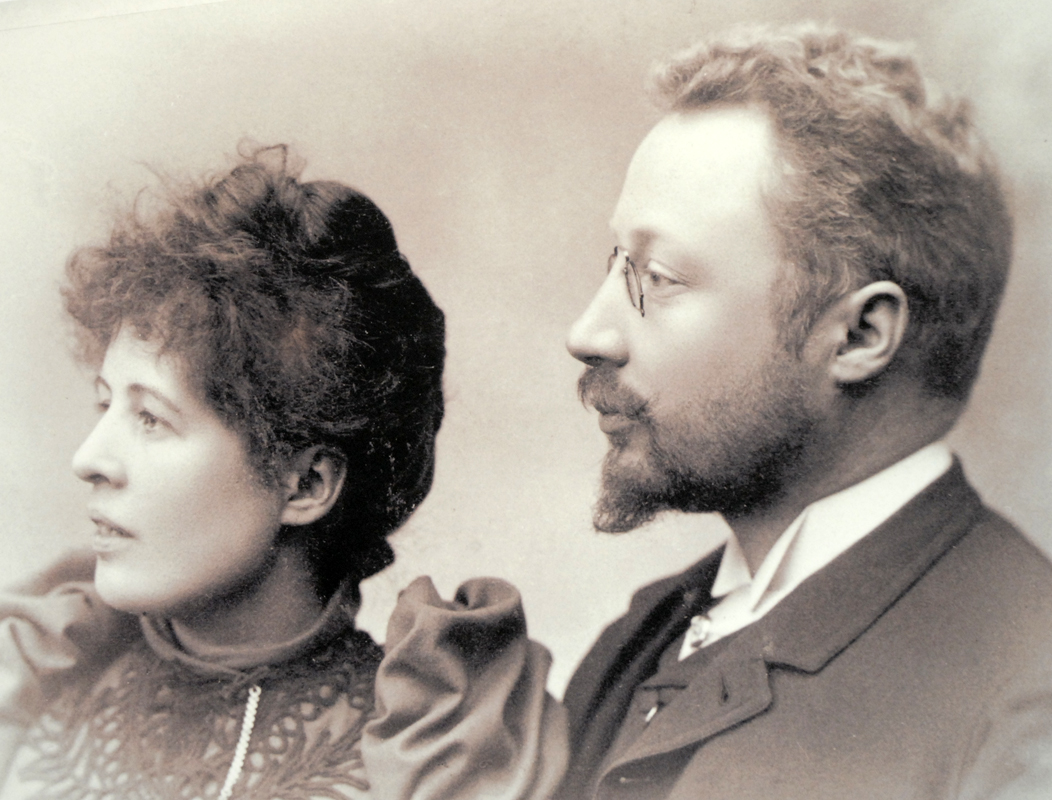 Portrait of the Finnish sculptor Ville Valgren (1855-1940), and his French wife Antoinette.